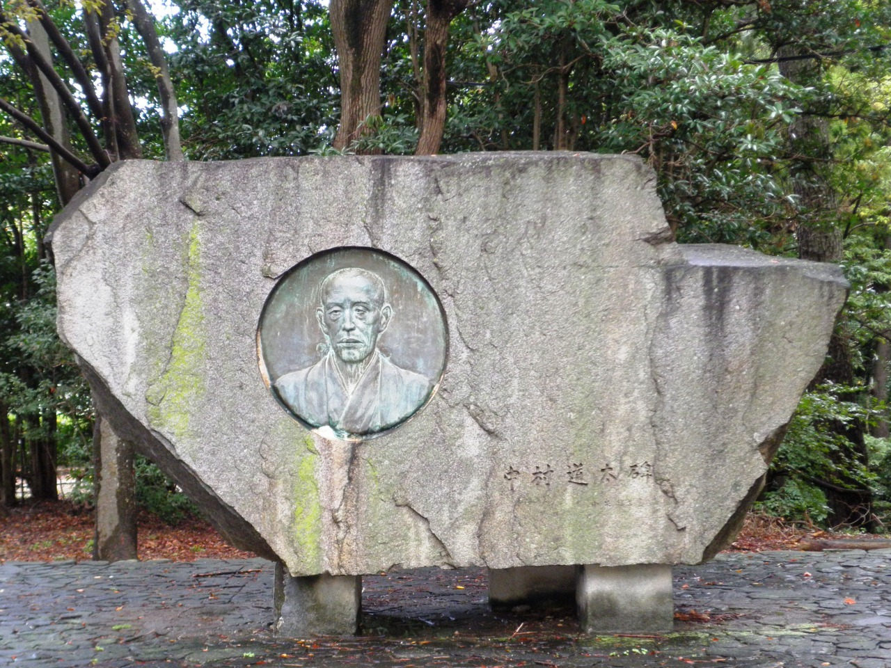 The monument of Michita Nakamura located in Toyohashi Park.